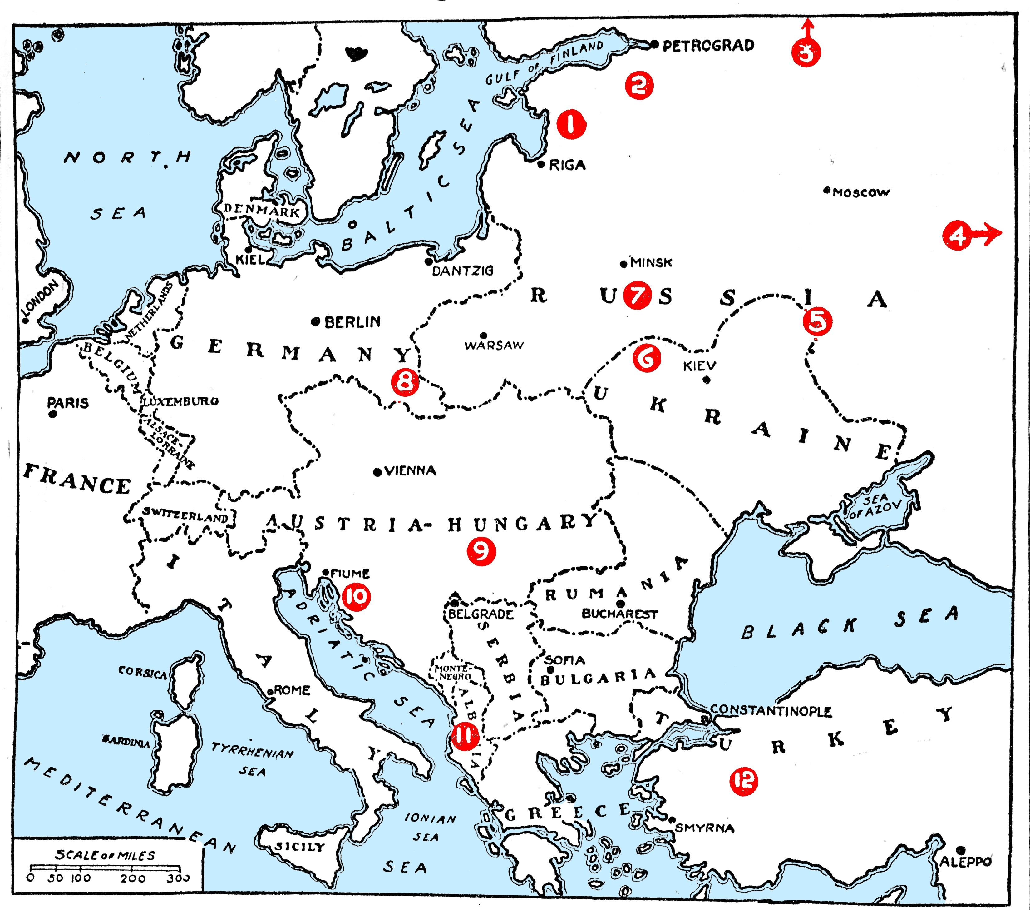 New-York tribune. November 9, 1919, Page 26 In the Baltic region there is a four-cornered struggle between the Lett and Esth nationalist troops, the German-Russian monarchist force of Colonel Bermondt, and the Bolsheviki. South of Petrograd the alleged anti-Gerynan forces of General Yudenich are in contact with the "red" armies. On the North Russian front the troops of the anti-Bolshevik Archangel government arc still "sticking it out" in spite of the withdrawal of the British expeditionary force. In Eastern Russia Kolchak's army is suffering one defeat after another at the hands of the "reds." In Southern Russia there is the volunteer army of General Denikin making war on the "reds" and the Ukrainians. In Volhynia and Podolia the troops of the Ukrainian directorate, under Symon Petlura, are facing the Bolsheviki on one side, the Poles on the other. Along the Dvina the Polish-Bolshevik war continues. In Silesia there is no actual fighting, but something very much like a truce between the Poles and Germans. Hungary, what with the Romanian occupation and the White Terror, with its pogroms and wholesale executions, is very much in the state of war. On the Adriatic fighting may start any moment between the Italians and Jugo-Slavs, with Gabriele D'Annunzio's volunteers still holding "conquered" Fiume. In Albania promiscuous fighting is going on, with Italians, French, Greeks, Serbians and Albanians participating. In Asia Minor the Turkish nationalist forces of Mustappa Kemal Pasha are defying the Allies.